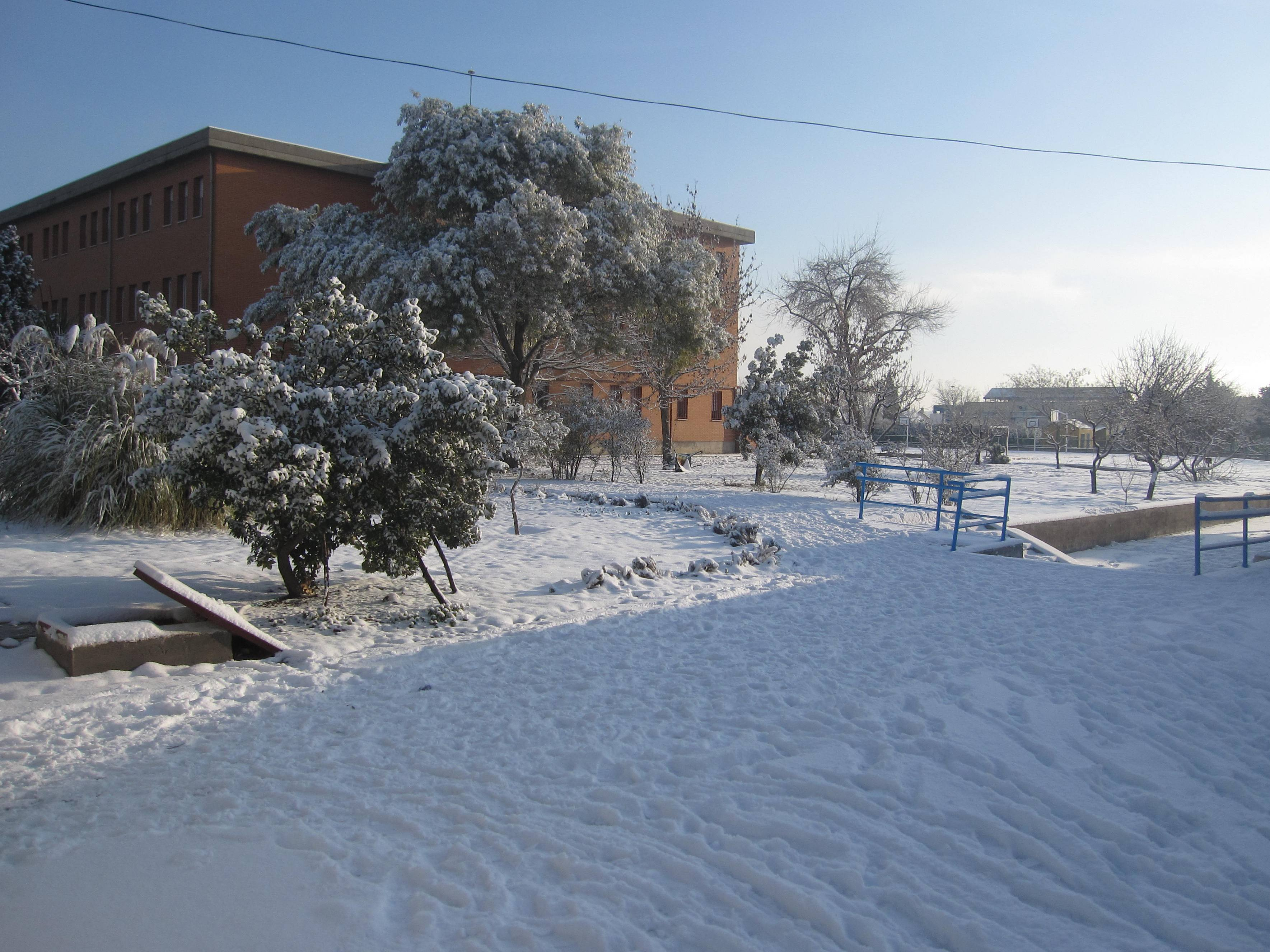 Núñez de Arenas primary school in Sector 3 (Getafe), Community of Madrid, Spain.